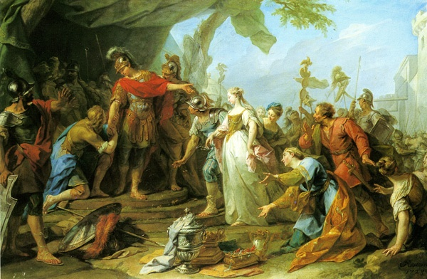 Scipio returning to Allutius his Betrothed